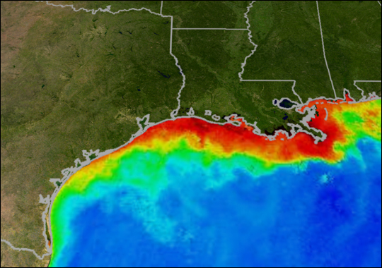 Satellite image and illustration of a dead zone in the southern U.S.